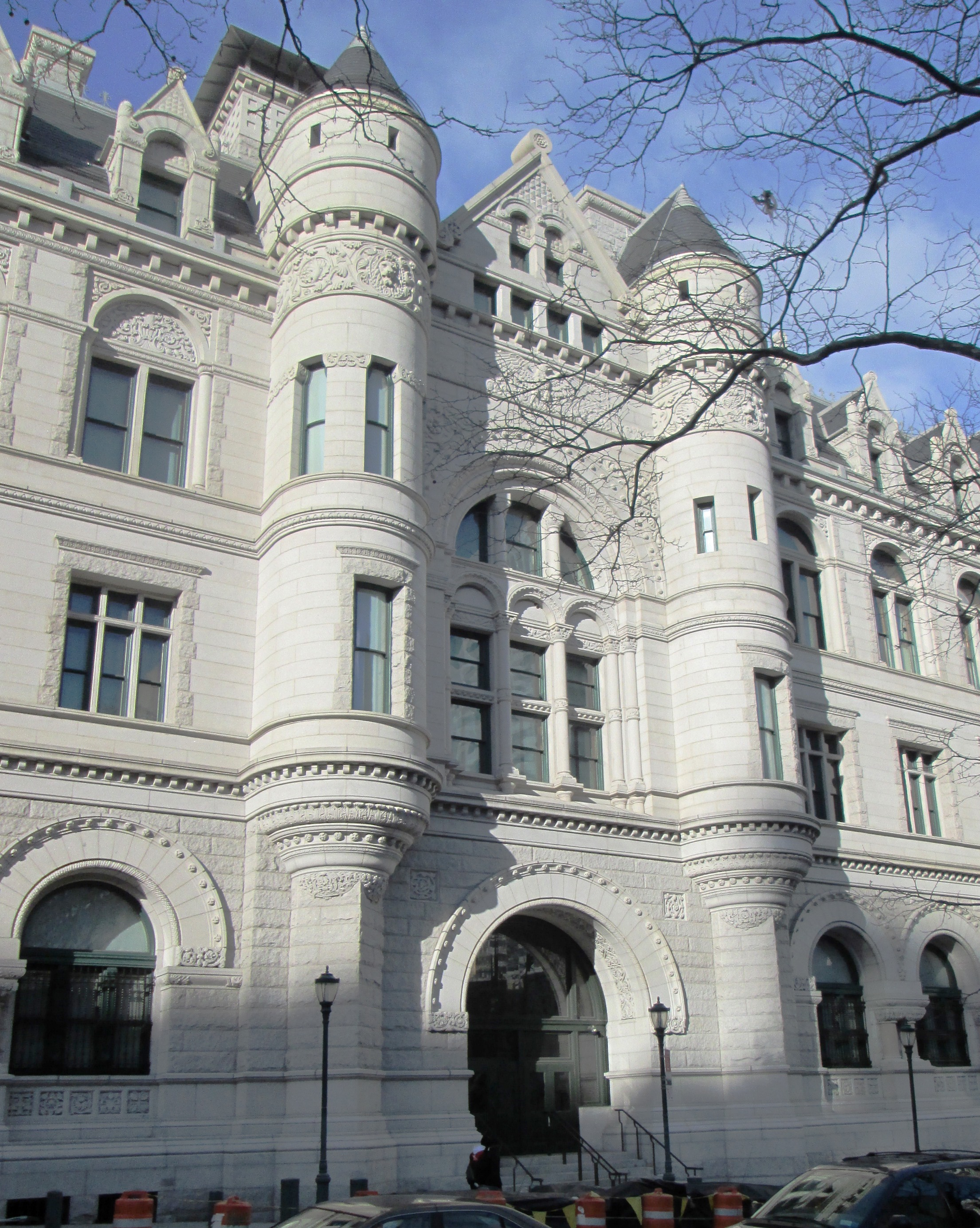 The Federal Building and Post Office at 271-301 Cadman Plaza East (Washington Street) at the corner of Johnson Street in the Civic Center neighborhood of Broopklyn, New York City was built in two stages. The original building (left), which was the Brooklyn General Post Office, was built in 1885-1891 and was designed by Mifflin E. Bell, succeeded by William A. Freret, in the Romanesque Revival style. The north addition to the post office (right), is now the U.S. Bankruptcy Court and United States Attorney's Offices. It was built in 1930-33 and was designed by James Wetmore. Both were remodeled in 2000 by R. M. Kliment & Frances Halsband. Both buildings are NYC landmarks (1966) and are on the National Register of Historic Places (1974). (Sources: AIA Guide to NYC (5th ed.) and Guide to NYC Landmarks (4th ed.))